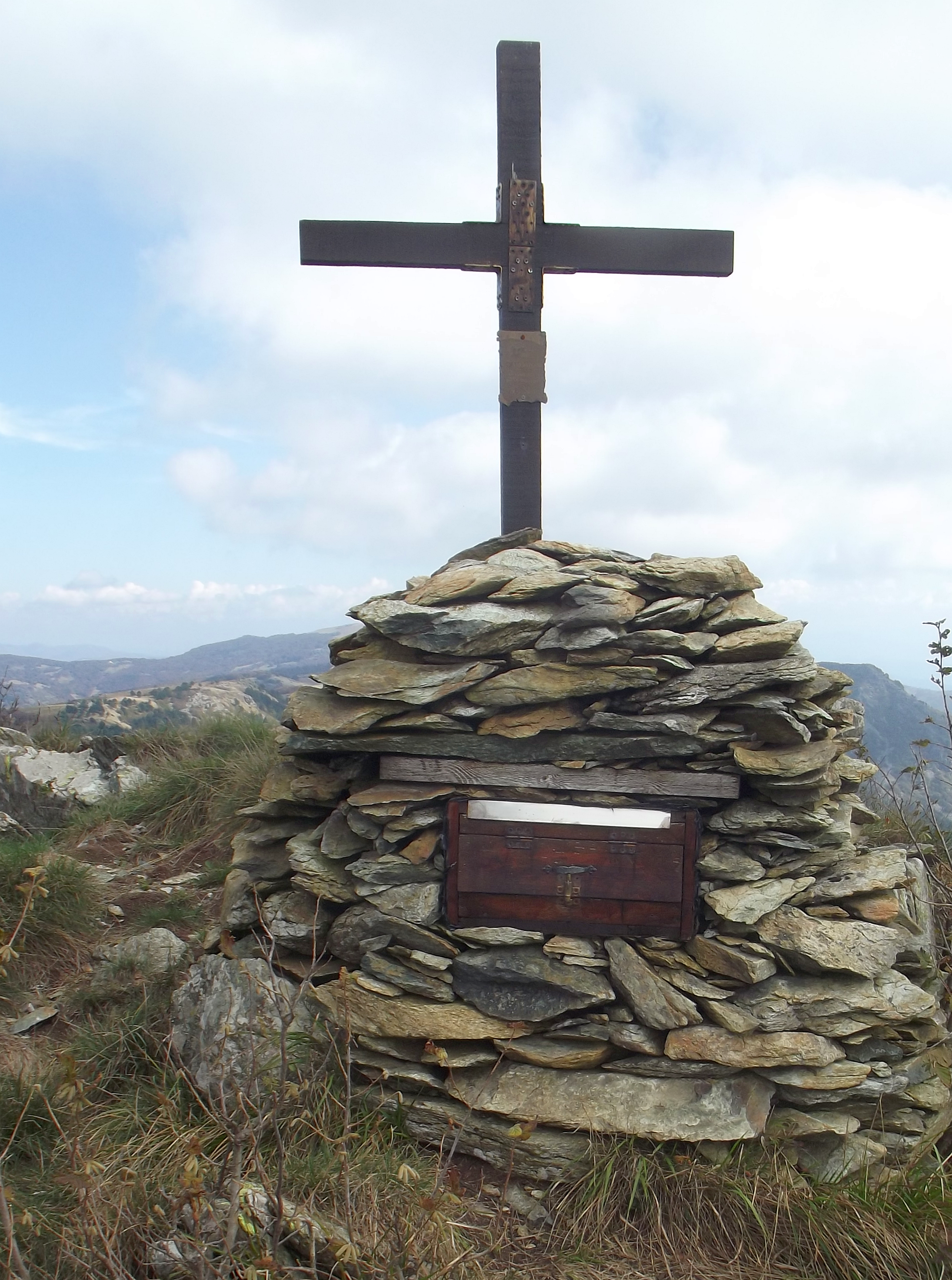 Bric Resonau (Ligurian Apennines, Italy): summit cross